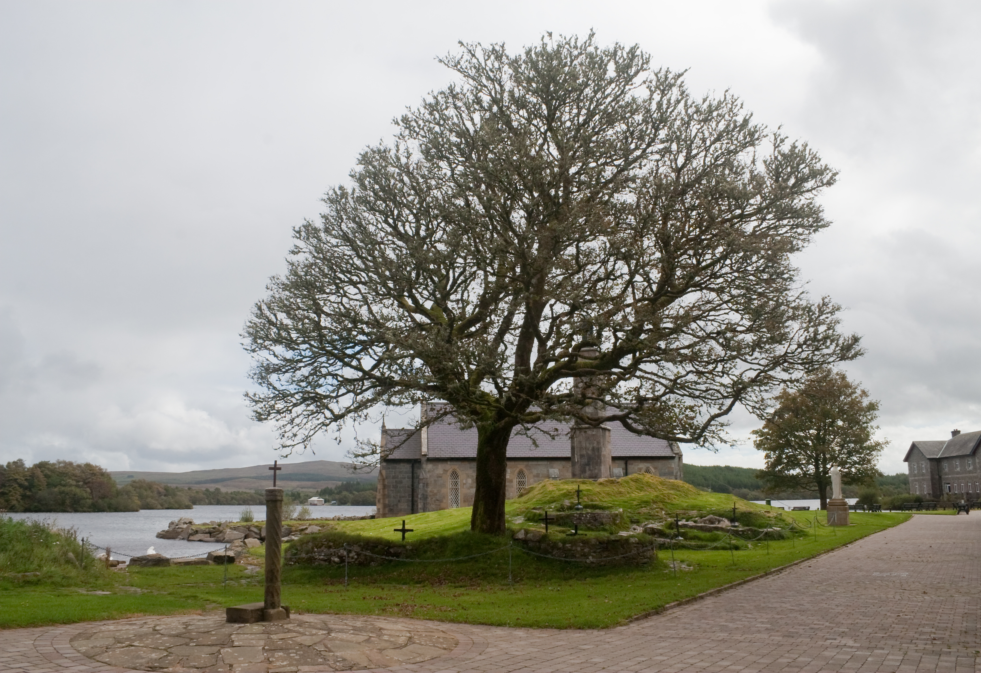 Station Island, Lough Derg, County Donegal, Ireland Penitential beds in front of St. Mary's Chapel. This photograph has been taken with kind permission of the prior, Monsignor Richard Mohan.